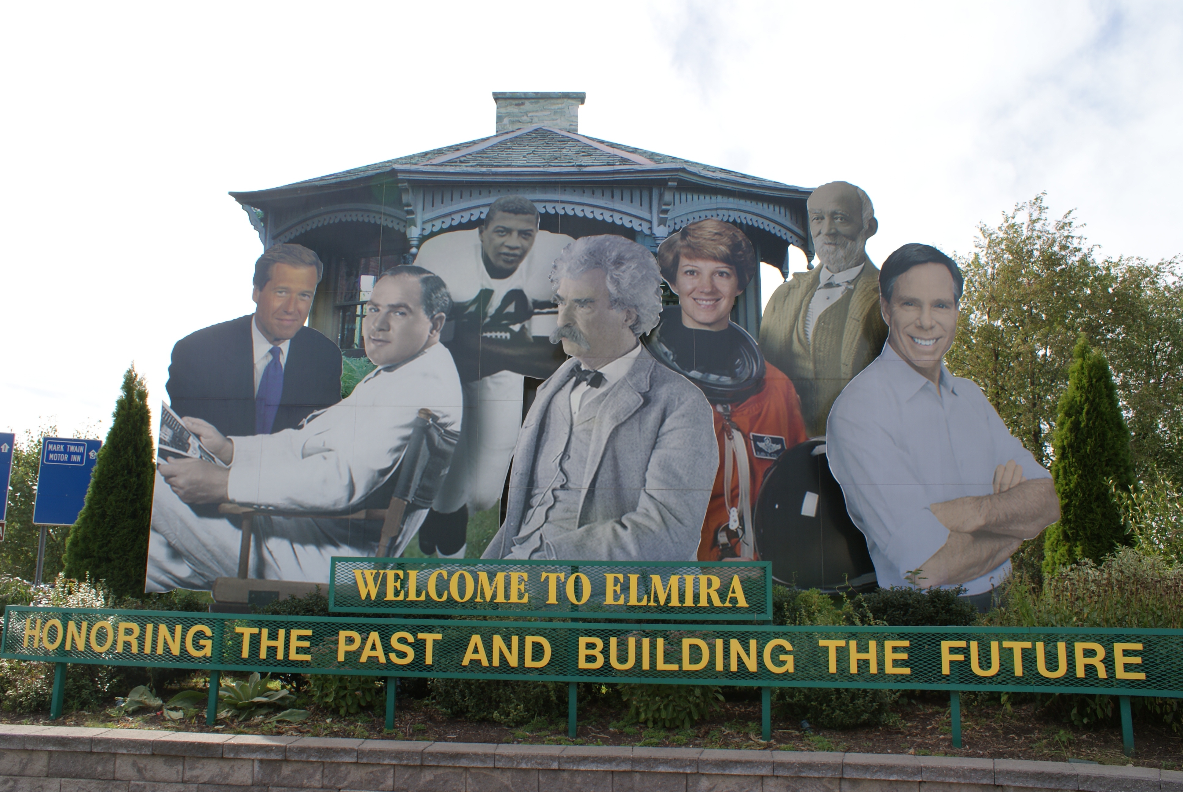 The welcome sign at the Church Street entrance to the City of Elmira